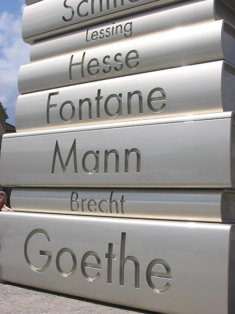 "Modern Book Printing" (detail), fourth sculpture (from six) of the Berlin Walk of Ideas on the occasion of 2006 FIFA World Cup Germany. Unveiling: 21 April 2006 at Bebelplatz, square near the Unter den Linden in front of Humboldt University. It is to commemorate to Johannes Gutenberg, the inventor of modern book printing around 1450 in Mainz